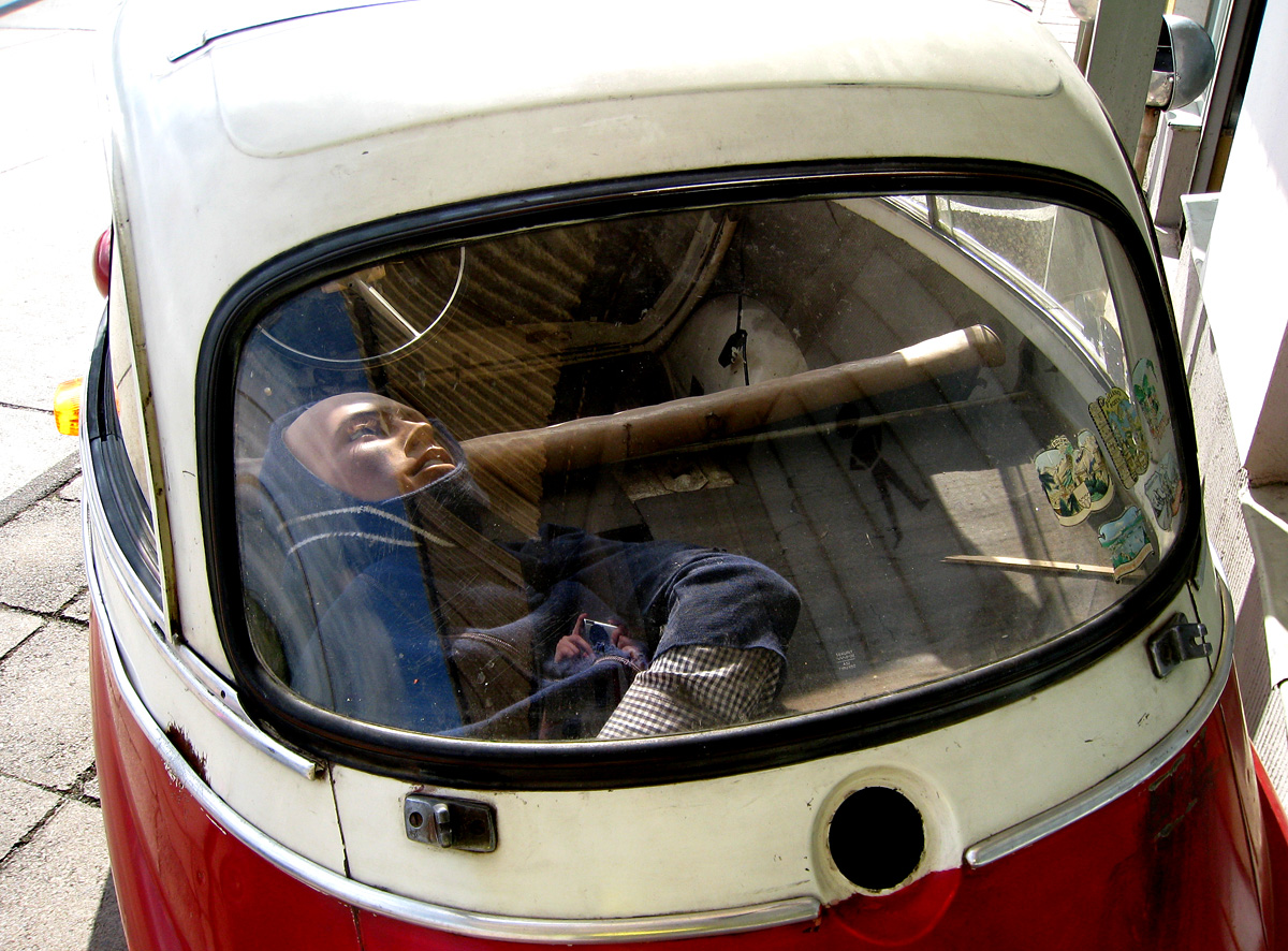 BMW Isetta "bubble car" used to smuggle people out of East Germany. On display at the Gedenkstätte Deutsche Teilung Marienborn.